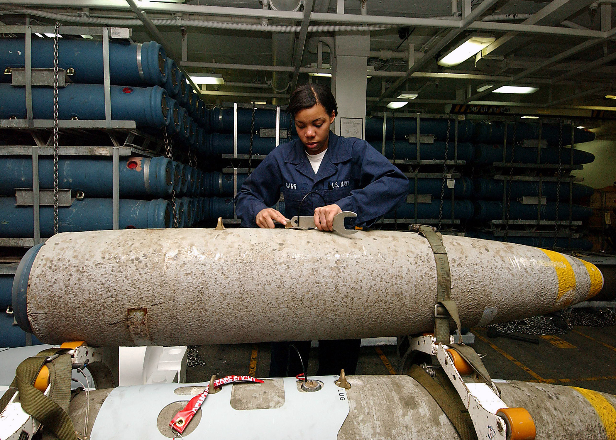 Persian Gulf (Apr. 29, 2004) - Aviation Ordnanceman Airman Lauren Carr, from Atlanta, Ga., puts a switch on a 2,000 lbs MK-84 general-purpose bomb in a weapons magazine aboard USS George Washington (CVN 73). The Norfolk, Va. based aircraft carrier and her embarked Carrier Air Wing Seven (CVW-7) are on deployment in support of Operation Iraqi Freedom (OIF). Aircraft assigned to CVW-7 continue to provide close air support for U.S. Marines of the 1st Marine Expeditionary Force battling insurgent forces in Fallujah, Iraq. U. S. Navy photo by Photographer's Mate Airman Jason R. Zalasky. (RELEASED)